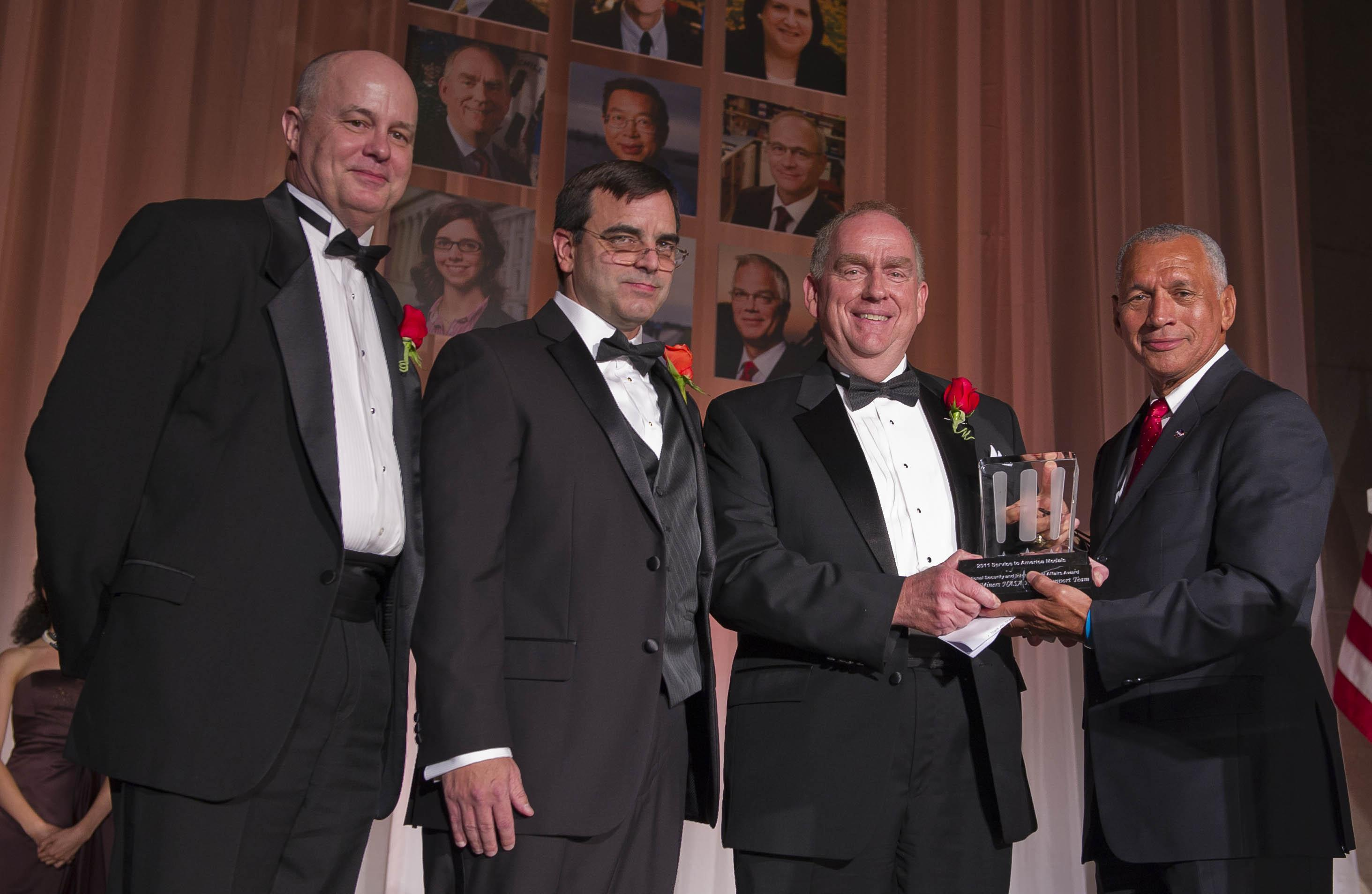 NASA Administrator Charles Bolden, right, presents the National Security and International Affairs Medal to Michael Duncan, former deputy chief medical officer at NASA's Johnson Space Center in Houston at the 2011 Samuel J. Heyman Service to America Medals, or Sammies, gala in Washington. Duncan was joined by J.D. Polk, also a medical doctor, and Clinton Cragg at left.